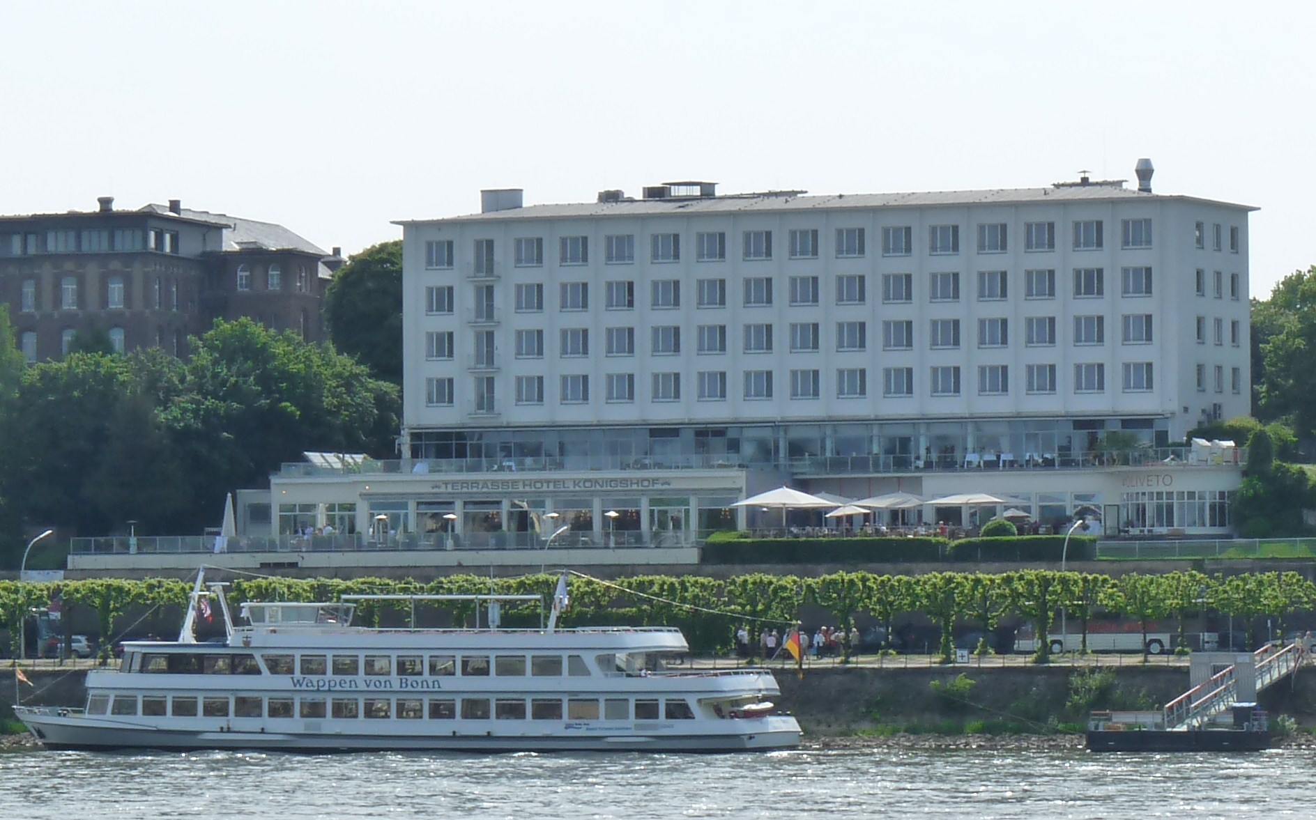 Hotel Koenigshof, Bonn, Germany